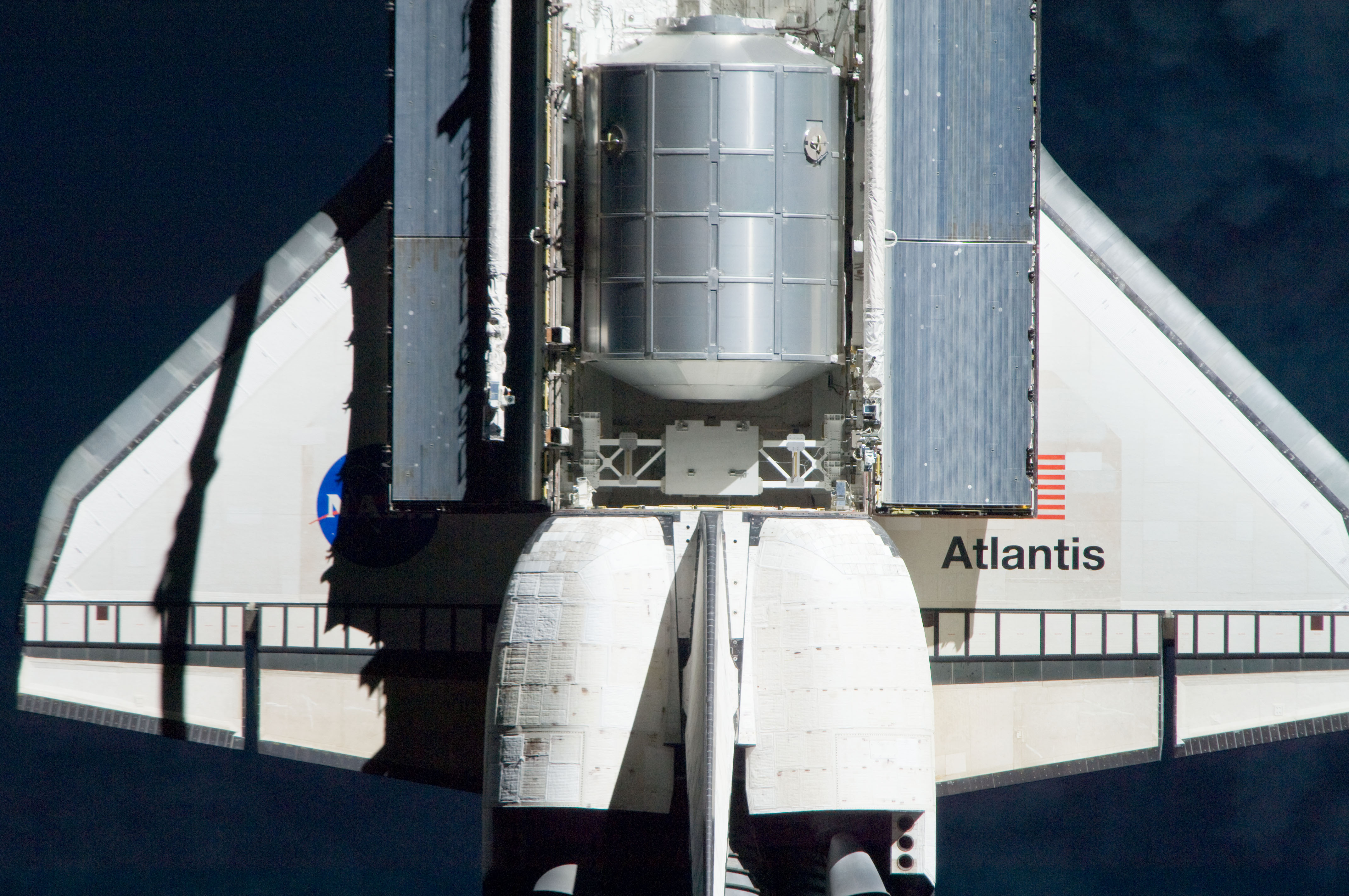 This is one of a series of images showing various parts of the space shuttle Atlantis in Earth orbit as photographed by one three crewmembers -- half the station crew -- who were equipped with still cameras on the International Space Station as the shuttle "posed" for photos and visual surveys and performed a back-flip for the rendezvous pitch maneuver (RPM). Seen at the rear of the cargo bay is the Raffaello multi-purpose logistics module, packed with supplies and spare parts for the orbiting outpost. An 800 millimeter lens was used to capture this particular series of images.